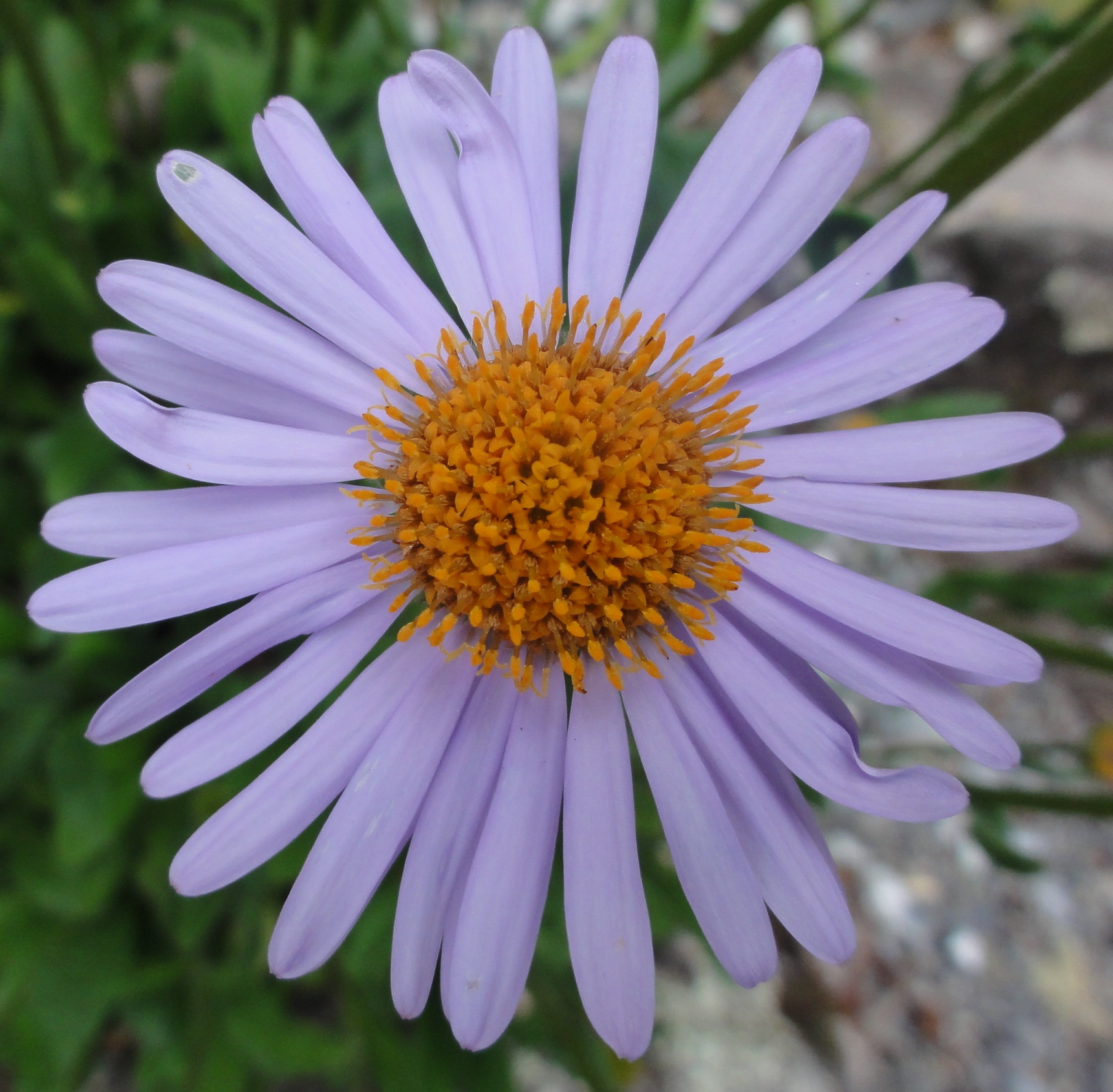 Aster flaccidus, single flower; Christchurch Botanic Gardens